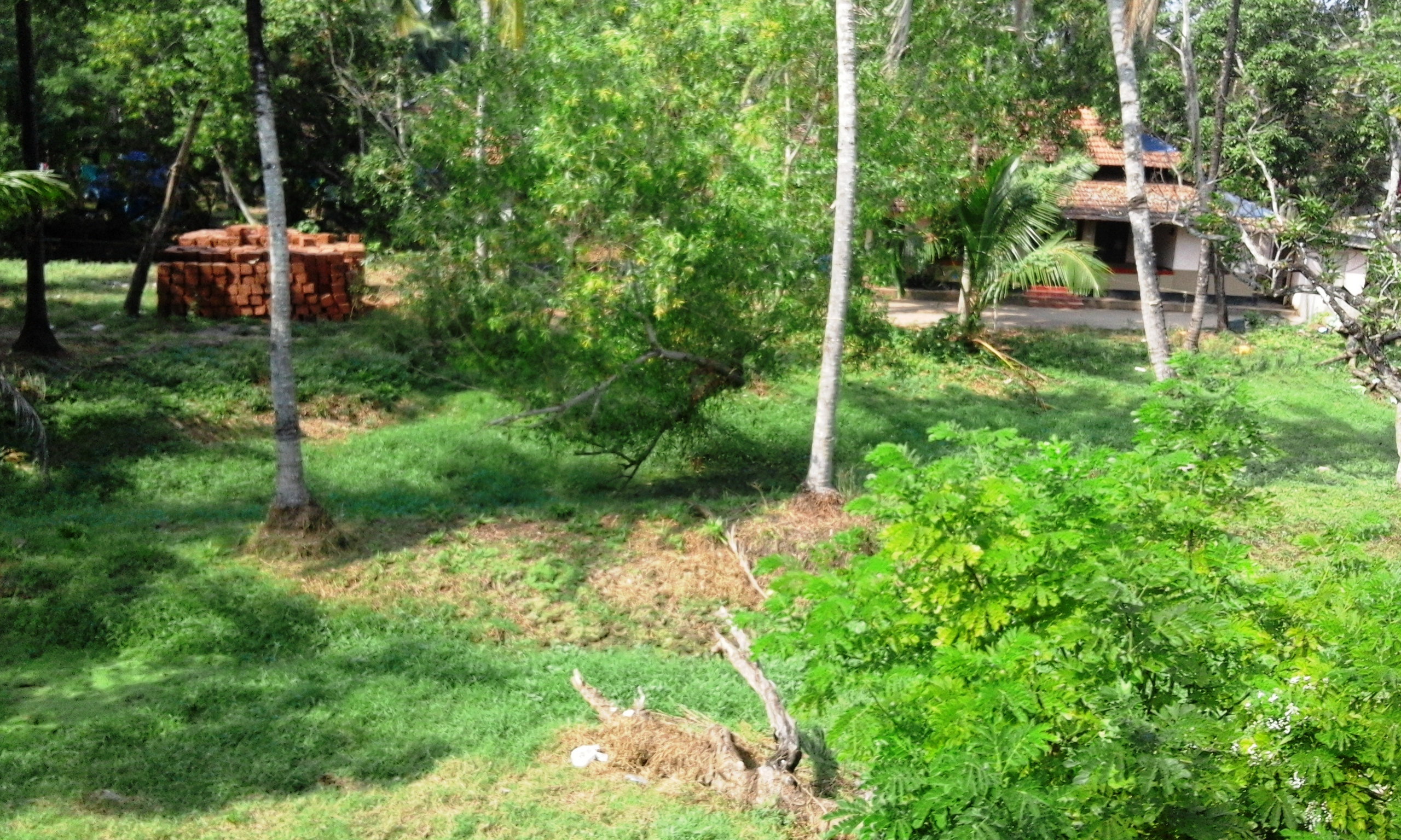 Kozhikode District, Kerala, India.